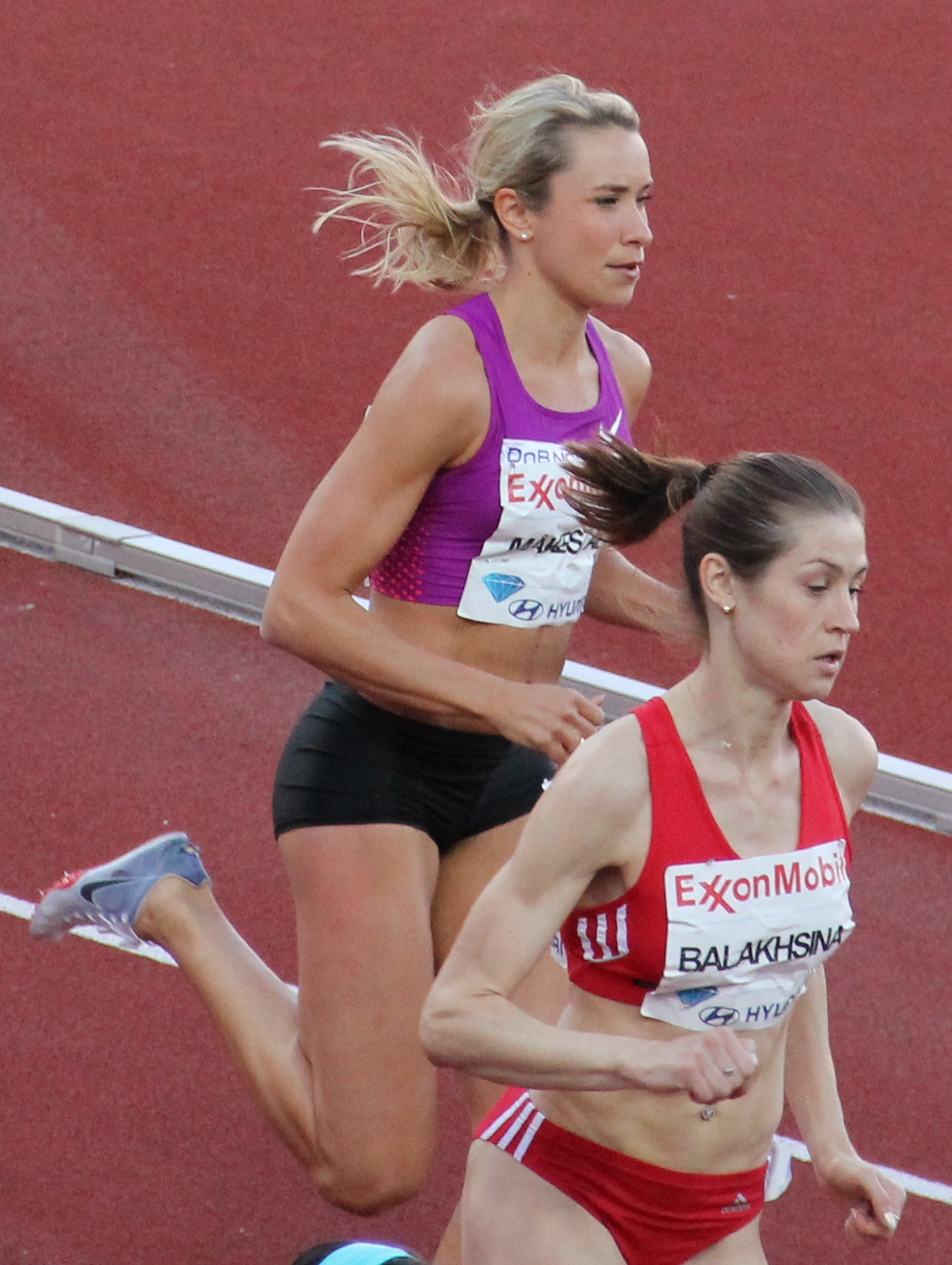 Ingvill Måkestad Bovim & Anna Balakshina, during her 800 meter run at the 2010 Bislett Games.